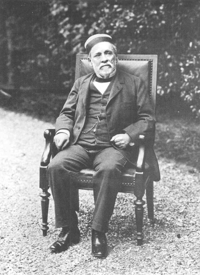 last photograph taken of Louis Pasteur in the gardens of the Institut Pasteur